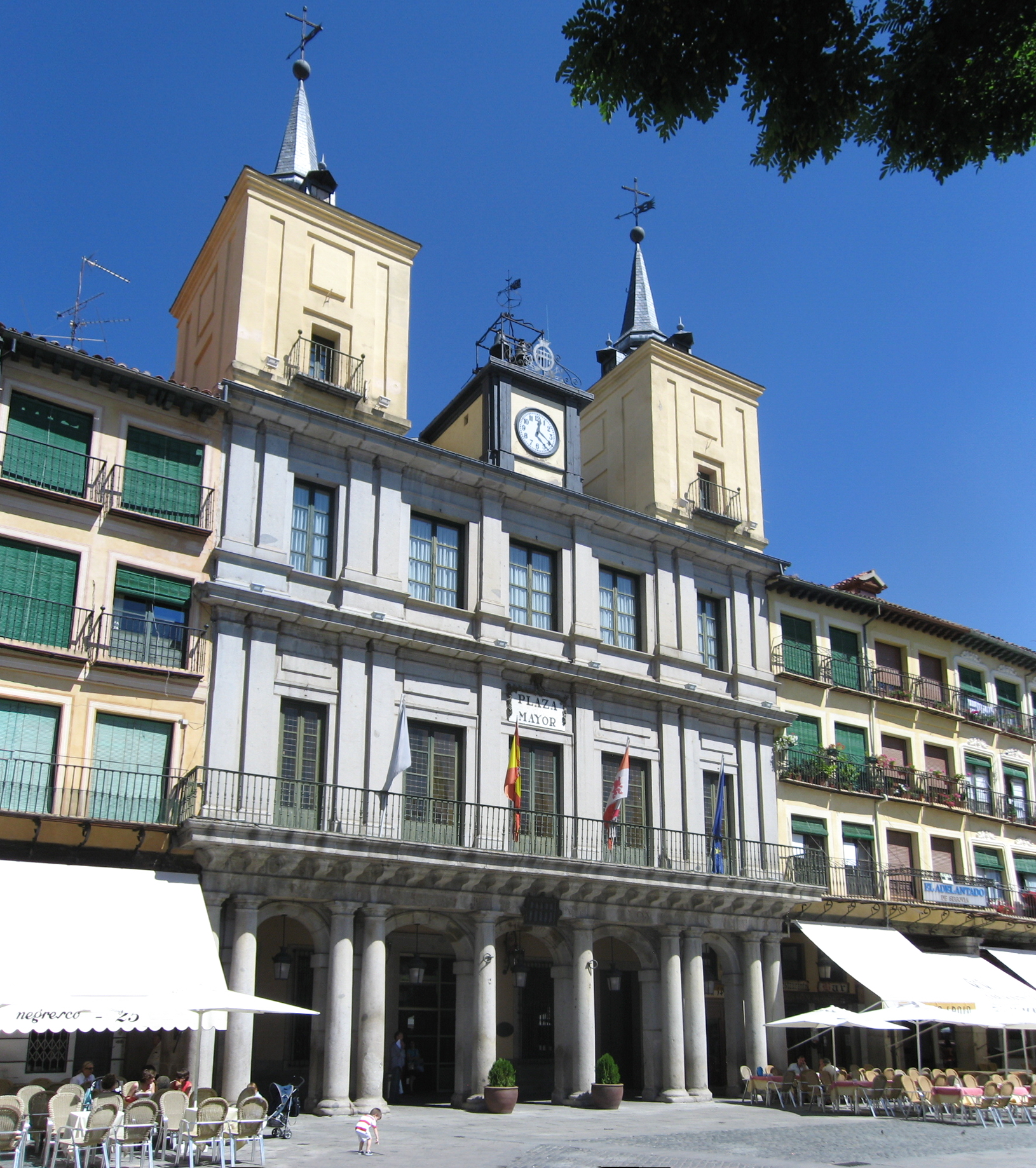 City-hall of Segovia.